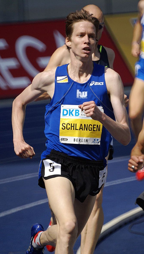 Carsten Schlangen. 1500m race (ISTAF Golden League Berlin 2008).